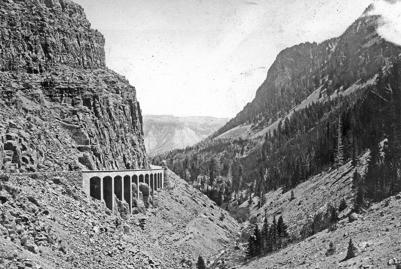 USGS Photo: Yellowstone Park. "The Golden Gate Viaduct," between Terrace Mountain and Bunsen Peak, looking down the canyon of Glen Creek showing the road over which tourists enter the park. Wyoming. 1921.